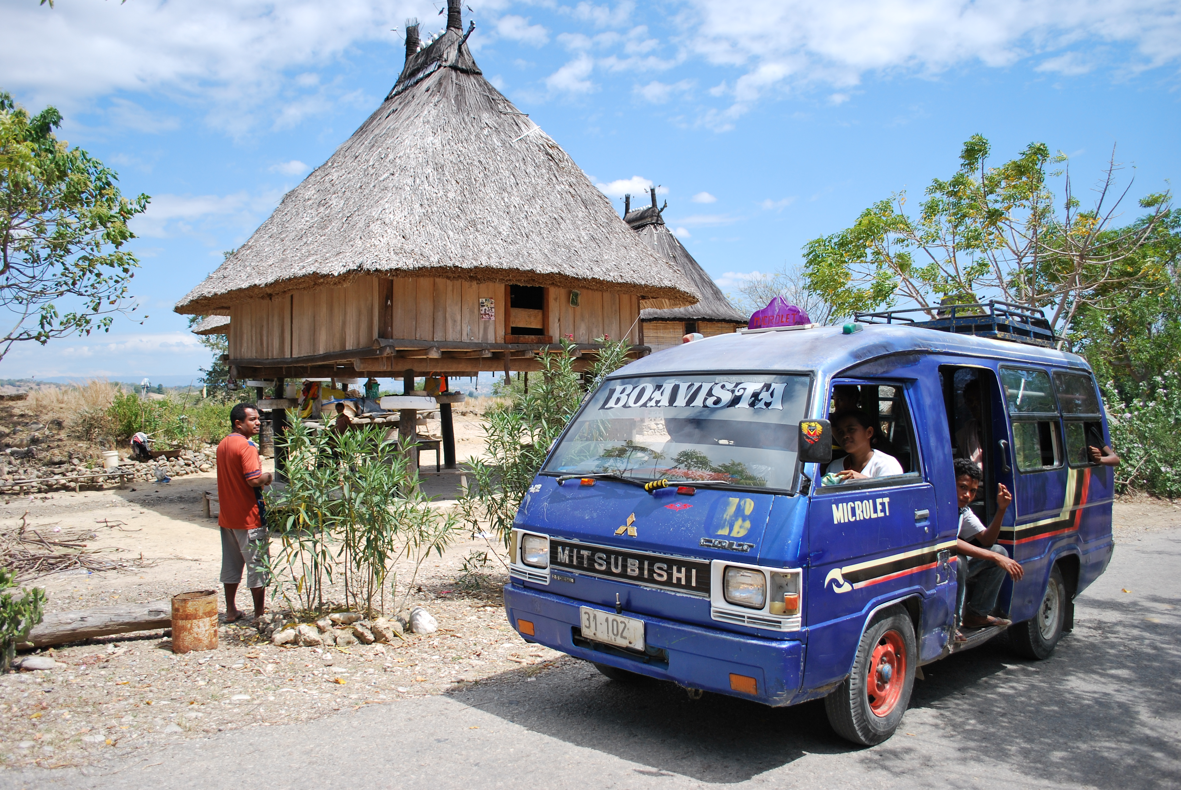 Traditional house in Utufalu. Laga, Baucau district. Mitsubishi Colt 2.5 diesel